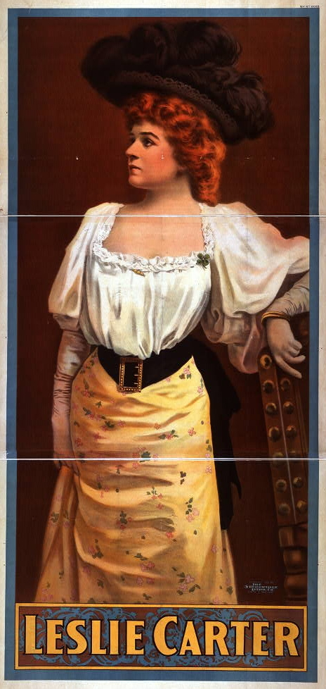 American actress Leslie Carter (1862-1937)